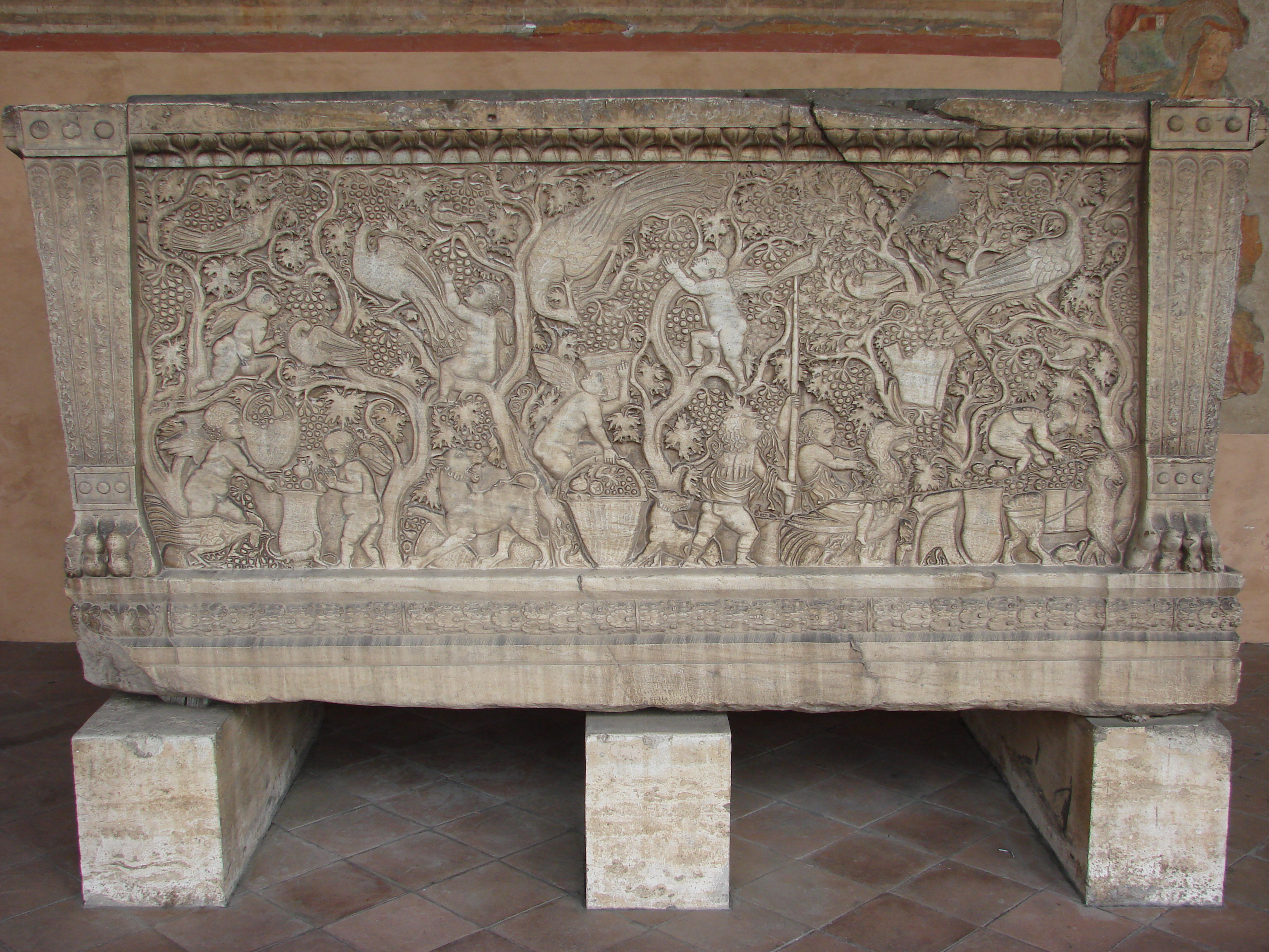 The tomb of Pope Damasus II. He was the third person of German ancestry to become Pope. Author: Allie Caulfield